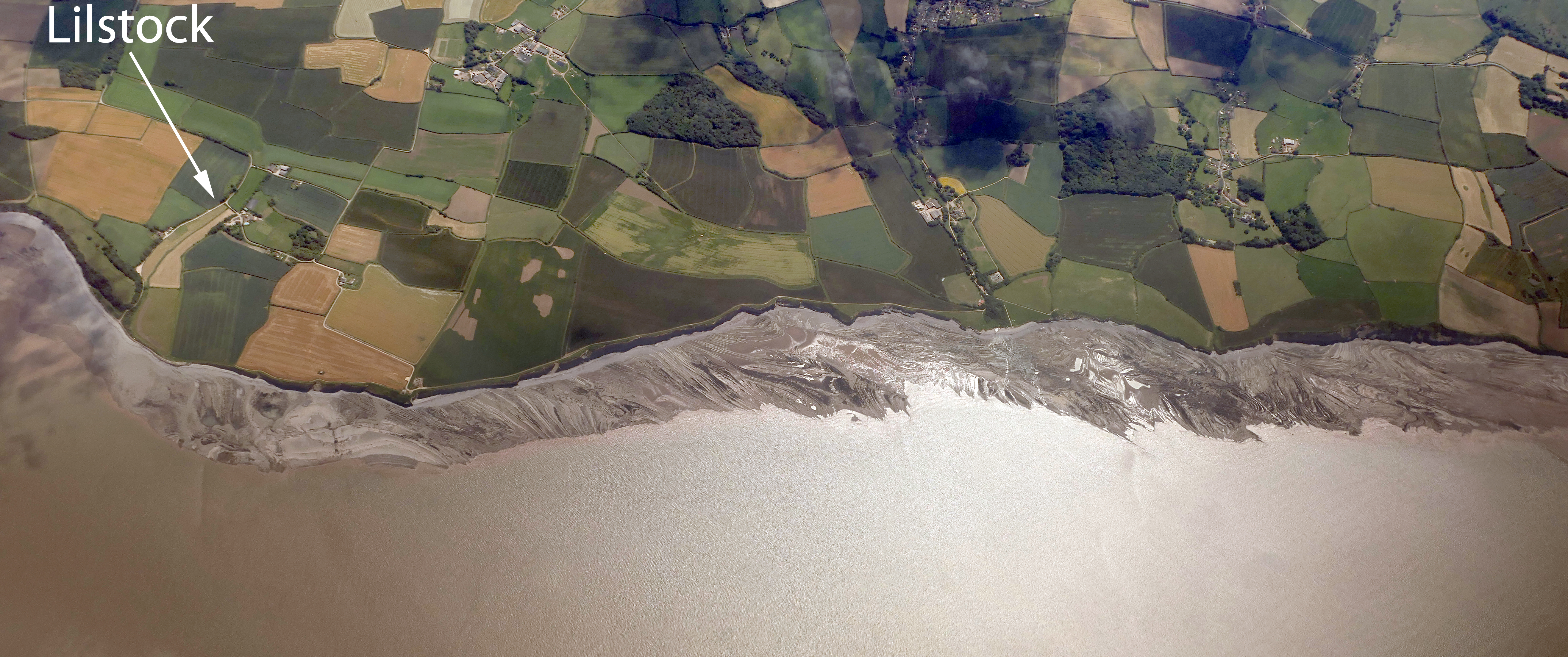 An aerial view of the eastern part of the Blue Anchor to Lilstock Coast SSSI in Somerset, England.